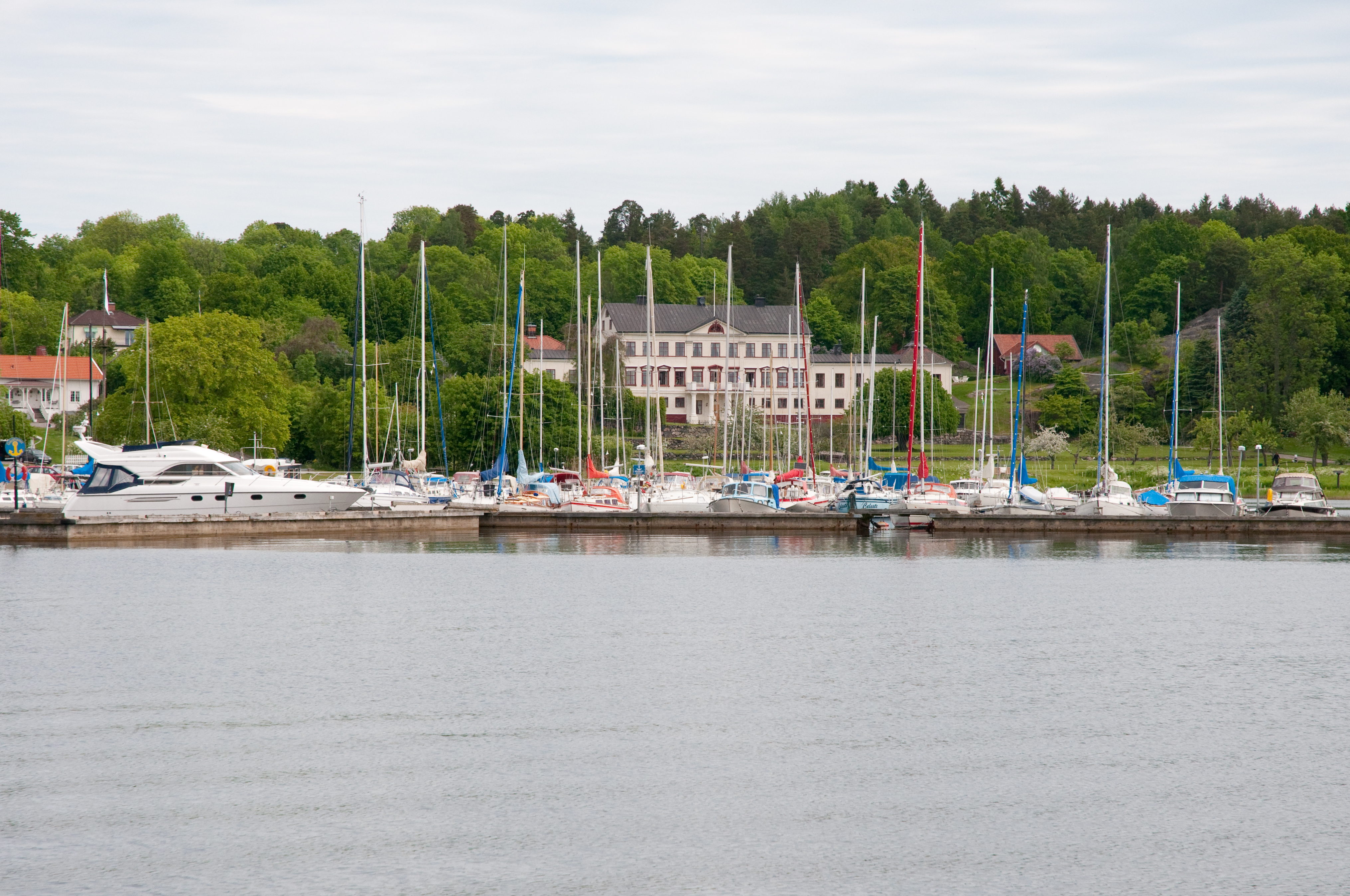 Nävekvarn at the port